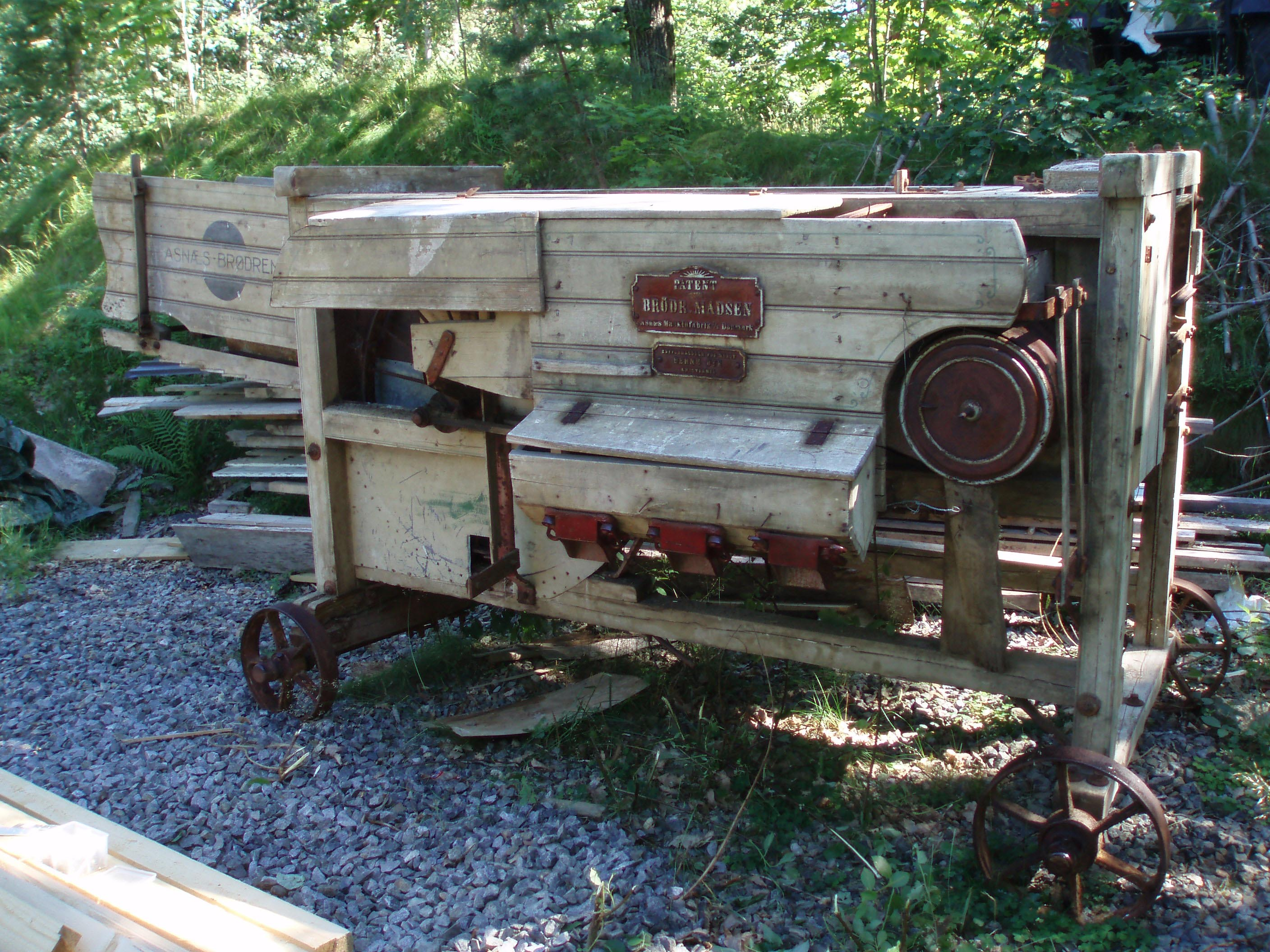 Treshing machine (Danish, from the 1930s)